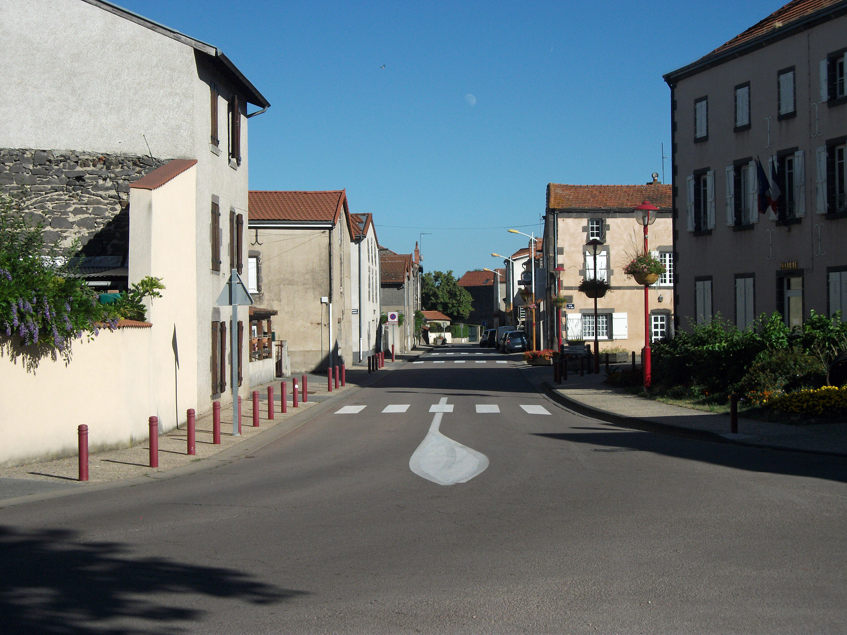 Grande Rue in Ménétrol, Puy-de-Dôme, France [11530]